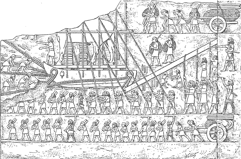 The trasport of a bull. Drawng of basrelief from British Museum.